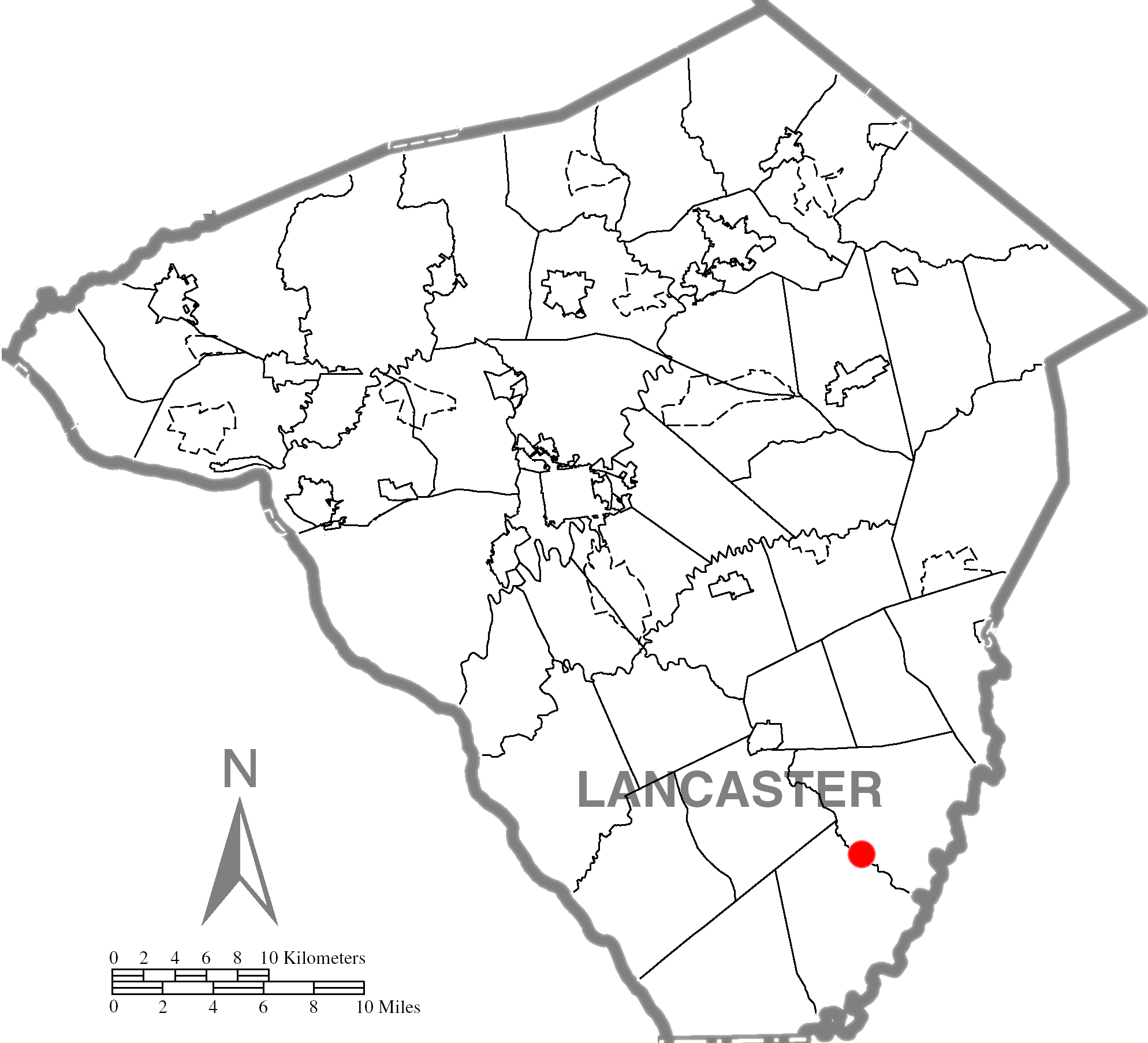 Lancaster County dot map of the White Rock Forge Covered Bridge.